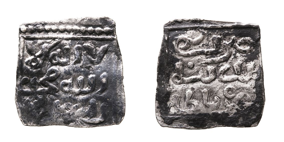 Quarter of dirham of the emirate of Granada, in silver. 13th to 15th centuries. Minted in Granada.